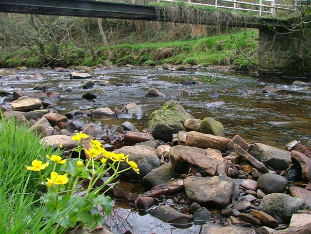 Haltwhistle Burn. The flowers, I believe are Marsh Marigolds, a name which seems out of place on the banks of this fast flowing stream.